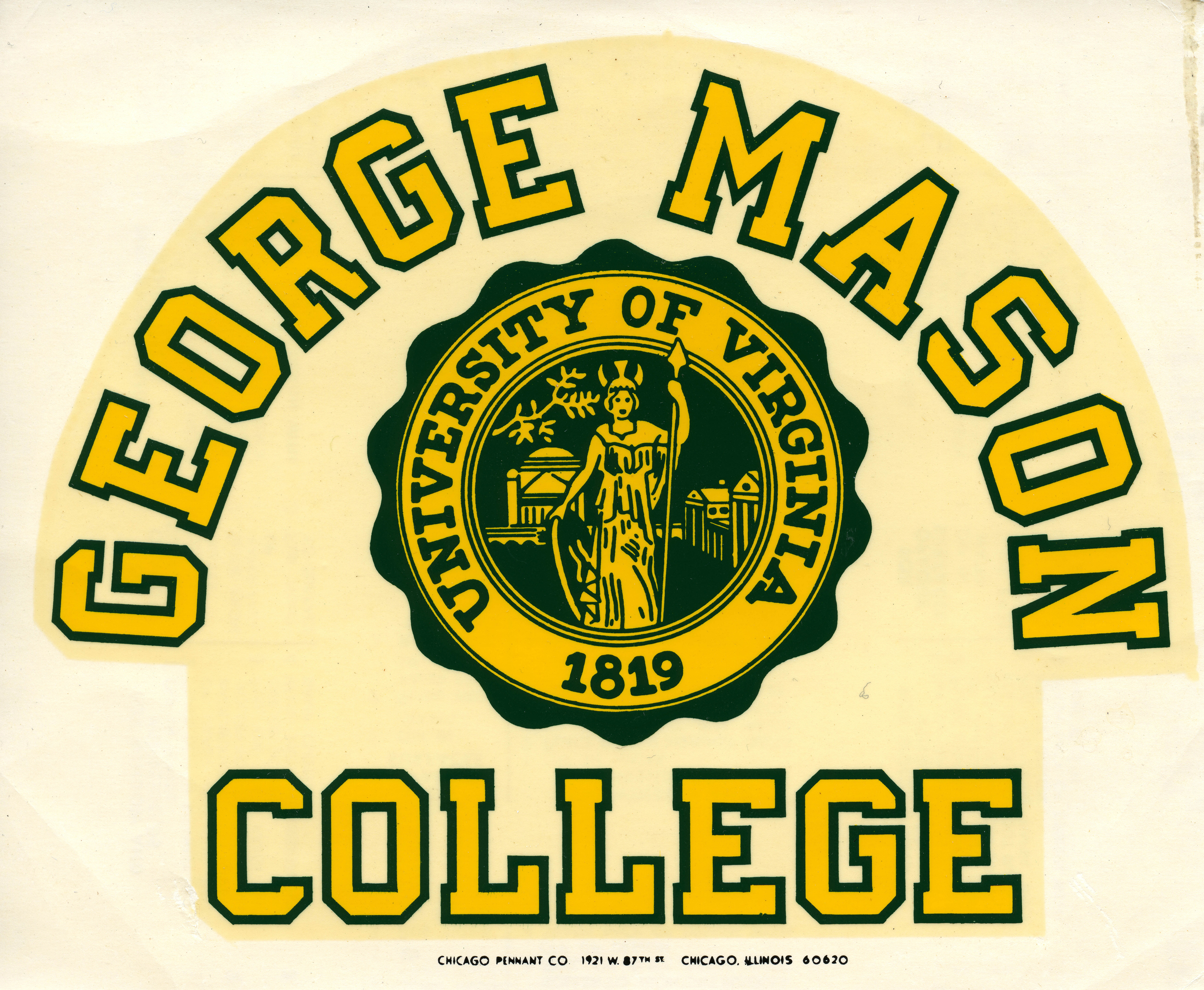 Green and gold decal featuring the seal of the University of Virginia along with the words: George Mason College. Manufactured by the Chicago Pennant Company, ca. 1970. Image measures 8.3" wide by 6.8" high; color.